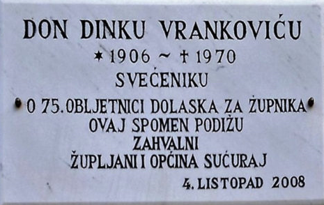 Memorial plaque to don Dinko Vranković, Sućuraj, Croatia, 2008.